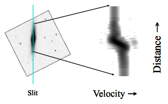 Example of how the frequency distribution of a celestial object can be manifested as a spatial distribution using a single slit aperture.